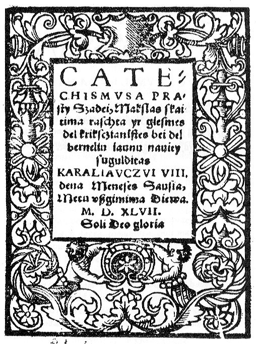 Title page of the first published Lithuanian book